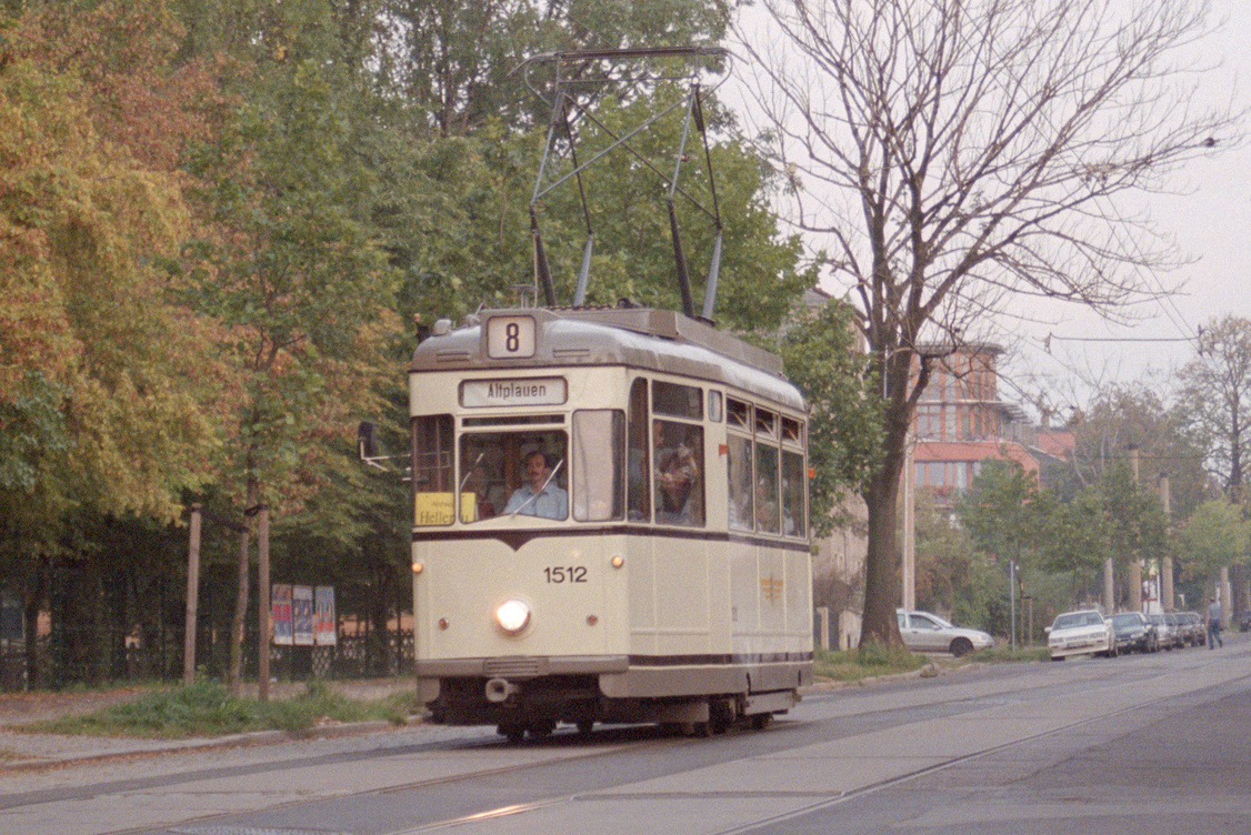 A preserved historic tram in Dresden. Car 1512 was built in 1960 by Gotha and is type T59E.